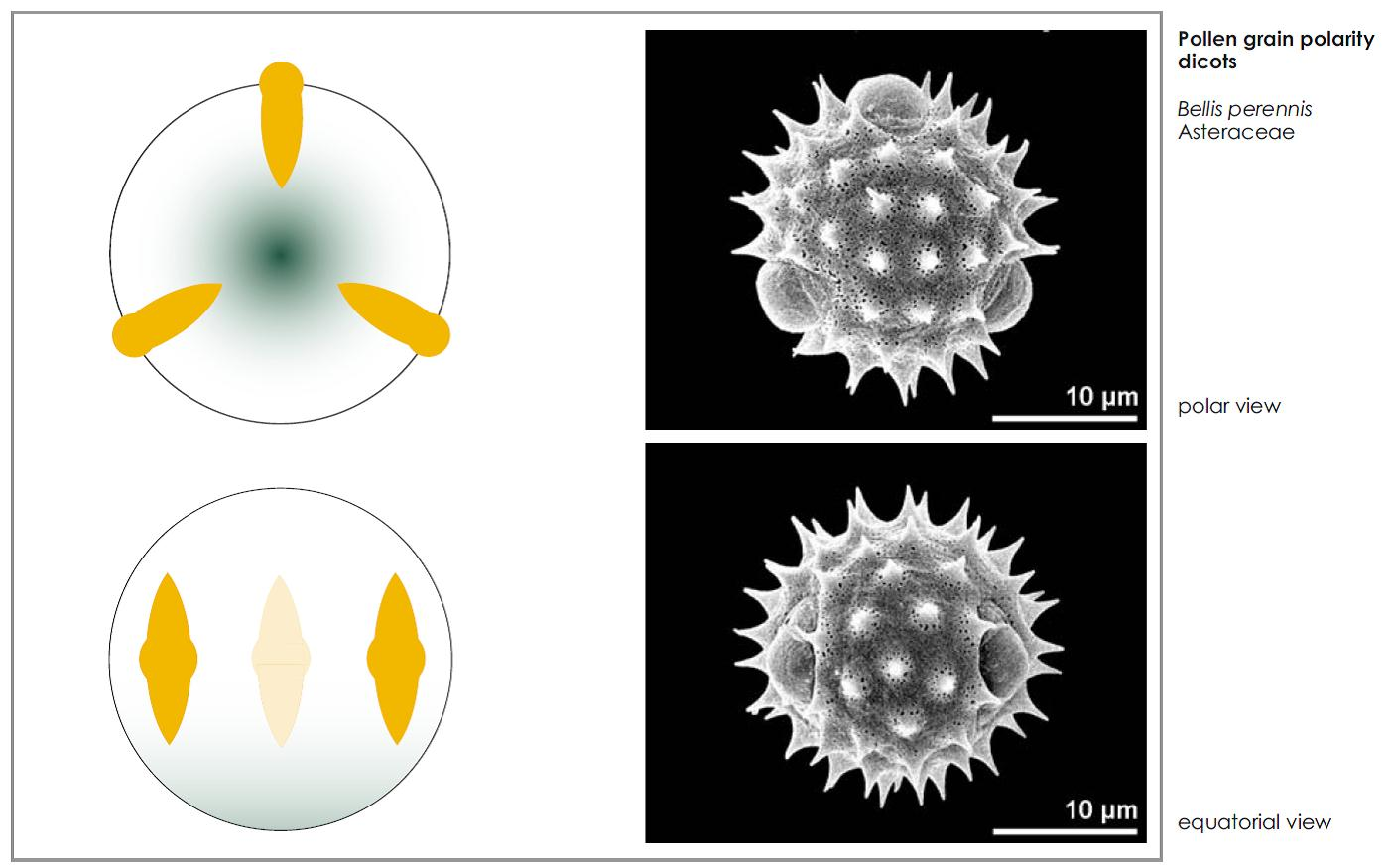 Different pollen kinds depending on their shape